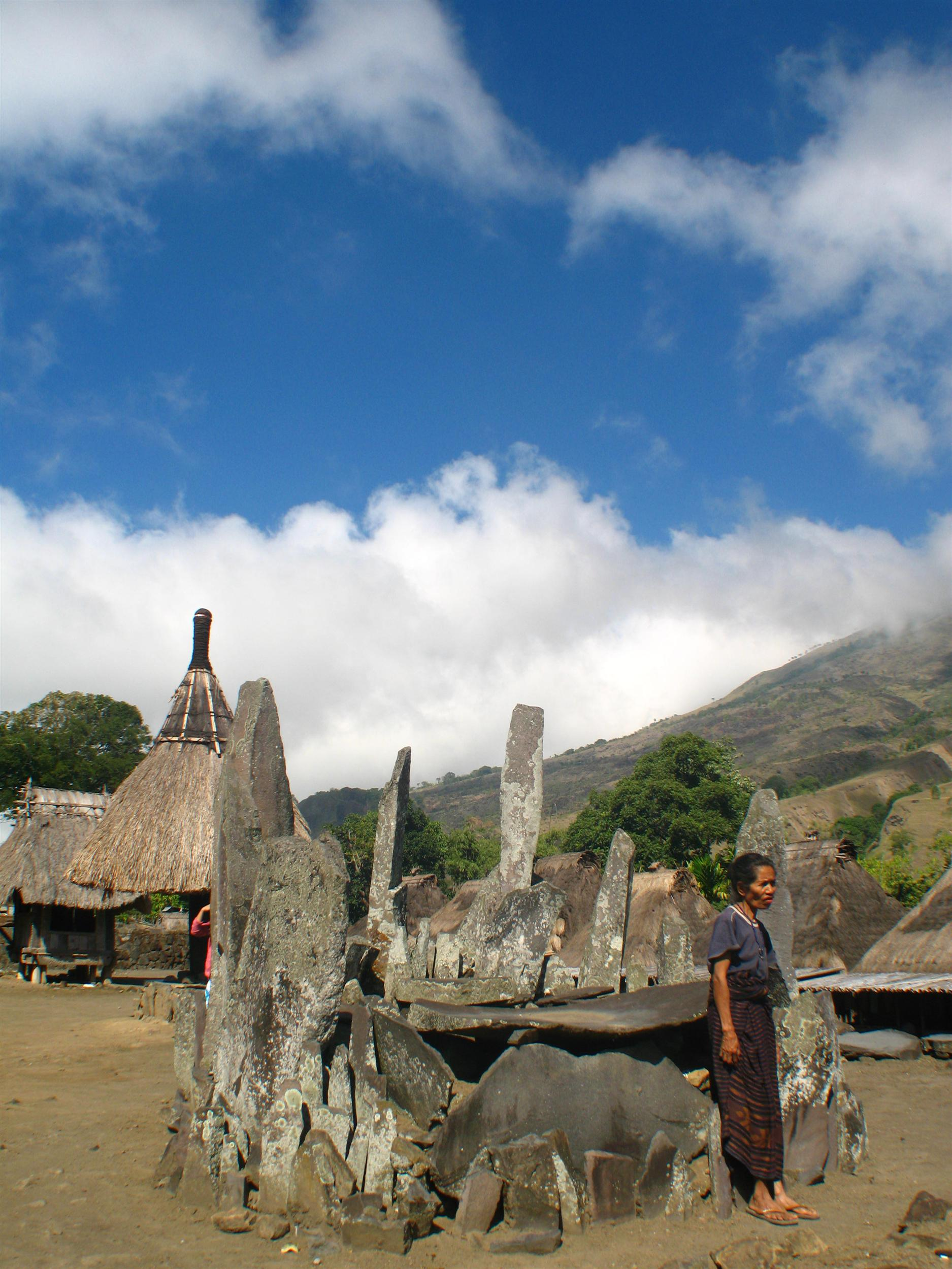 An ancient megalithic structure in Bena village, Ngada, Flores.